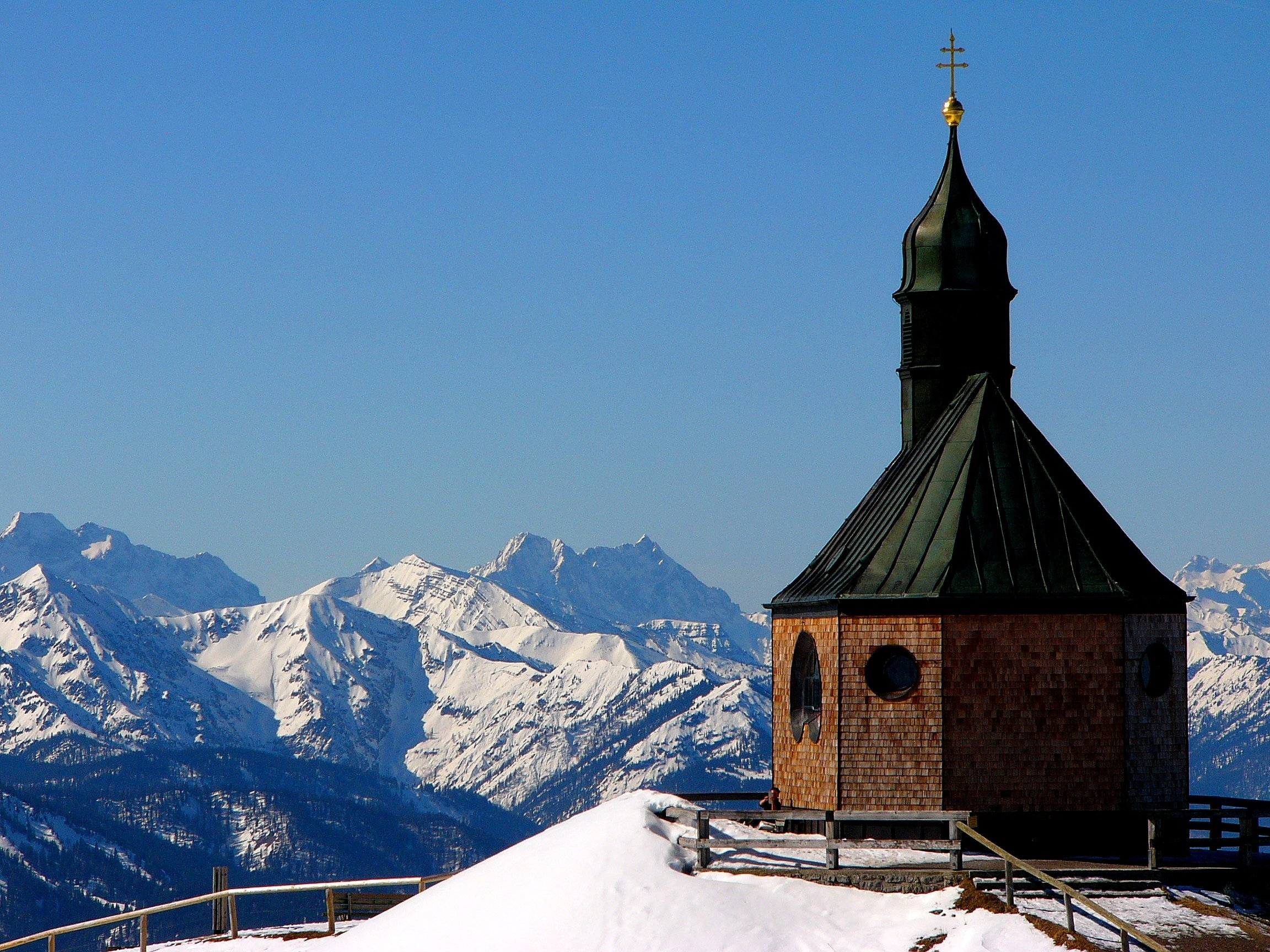 This is a photograph of an architectural monument.